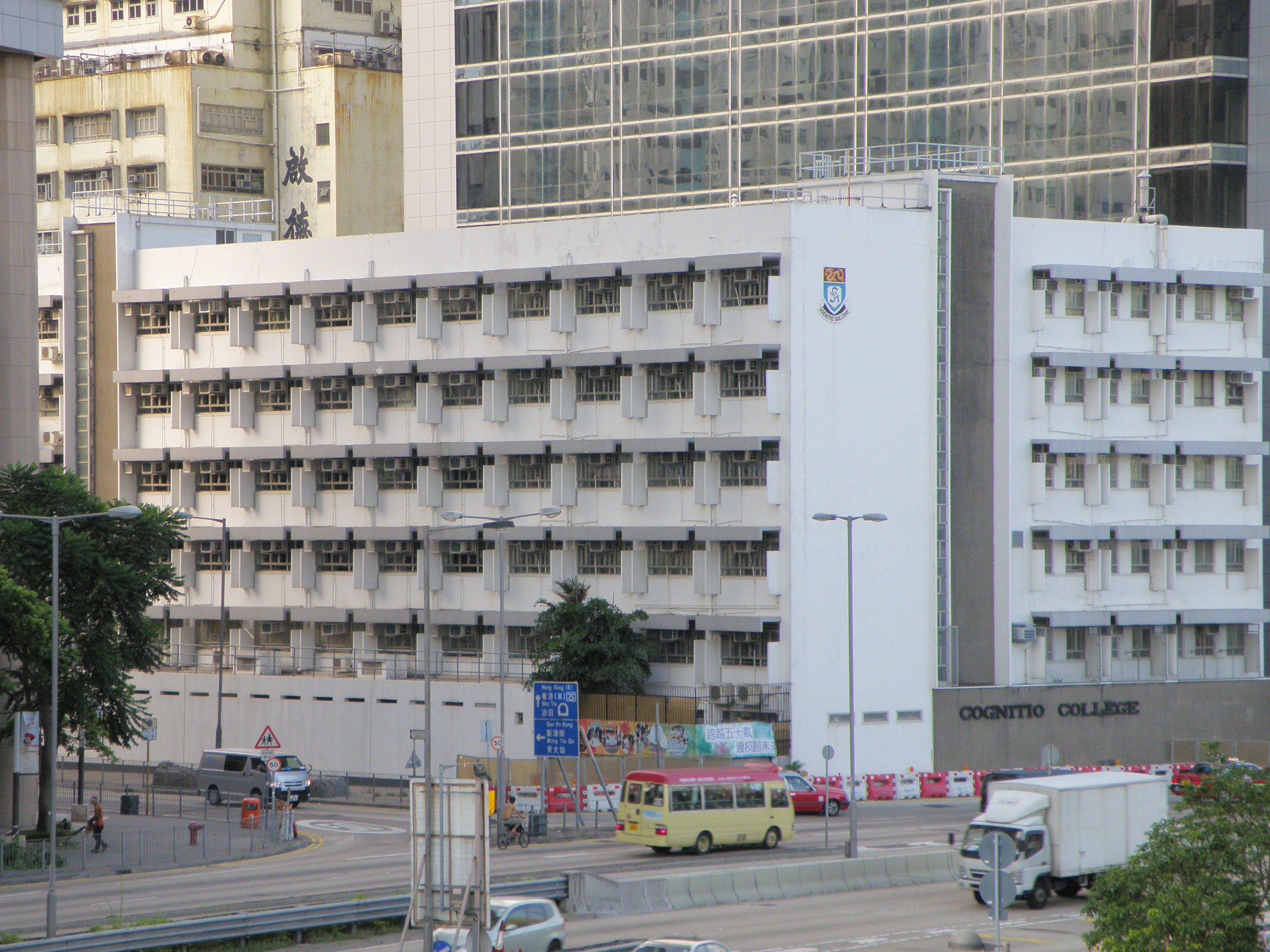 Cognitio College in San Po Kong, Hong Kong.